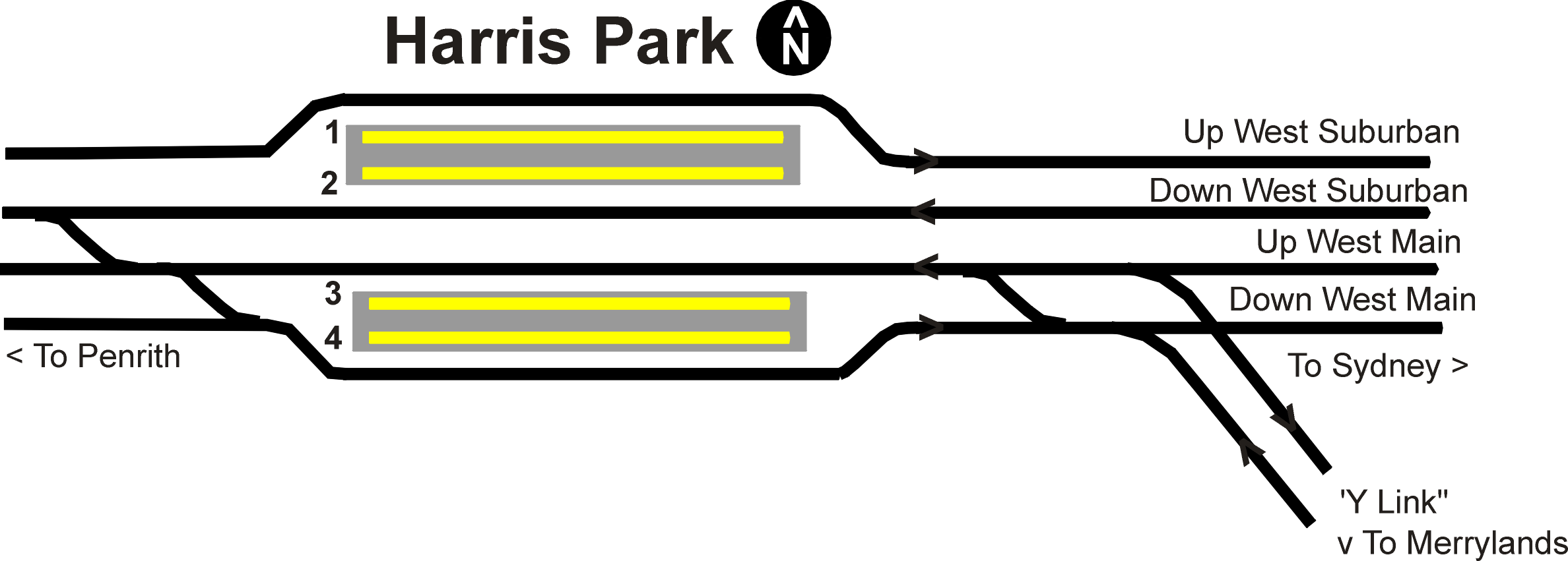 Track layout at Harris Park railway station, Sydney